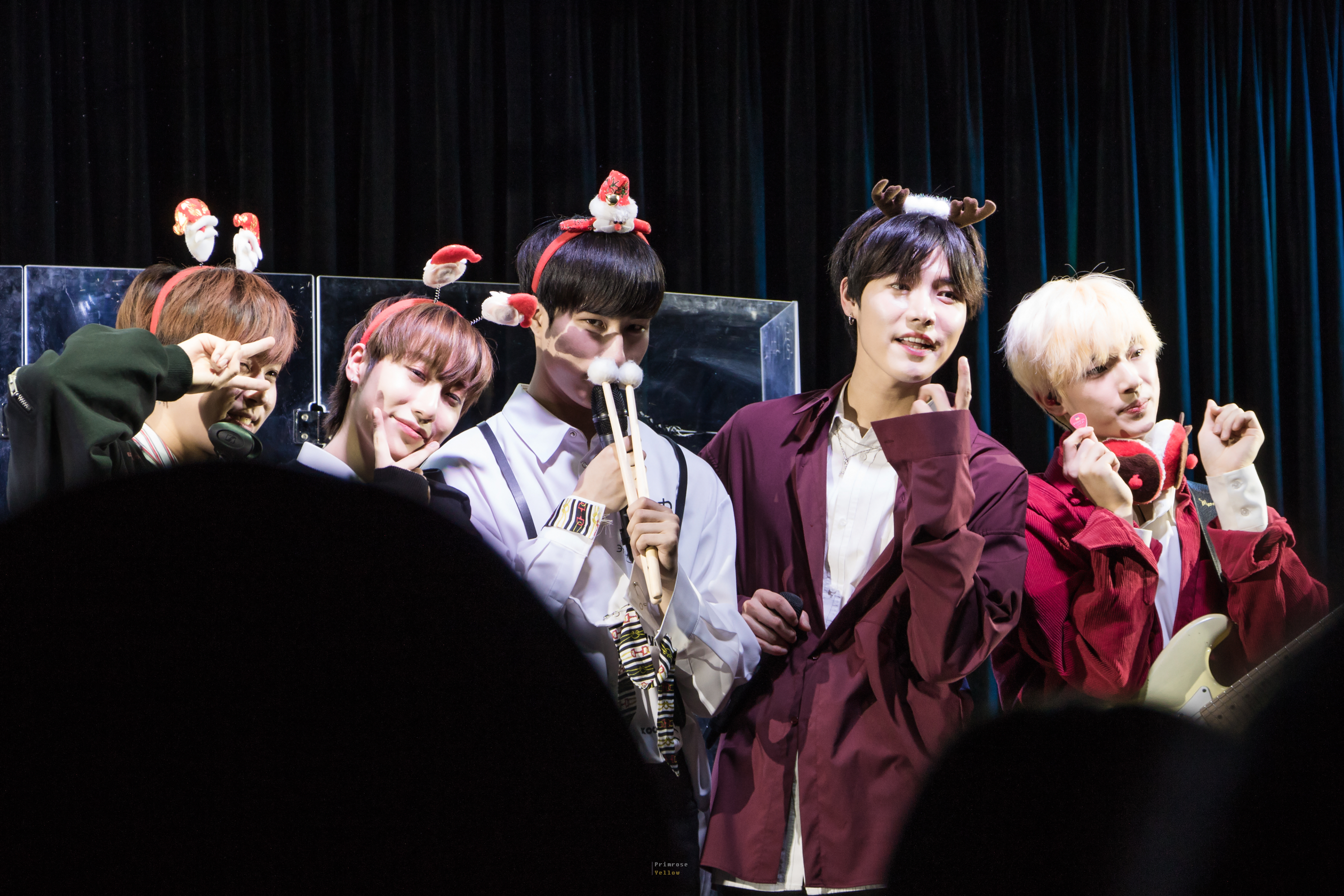 ONEWE WE wish ONE merry christmas